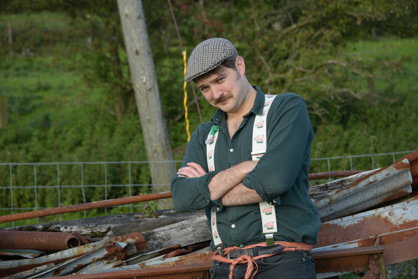 Welsh Whisperer in Pentir, Gwynedd